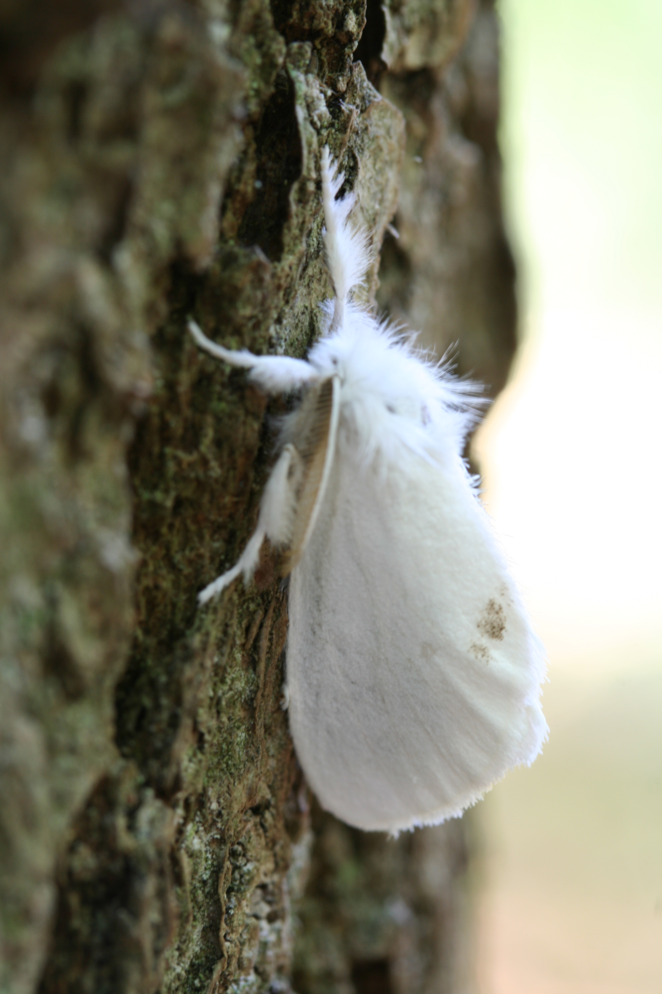 Euproctis similis 12 July 2006 IJmuiden, the Netherlands